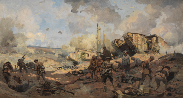 Painting of the Battle of the Hindenburg Line by William Longstaff.